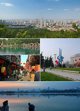 Montage of various Jinan images